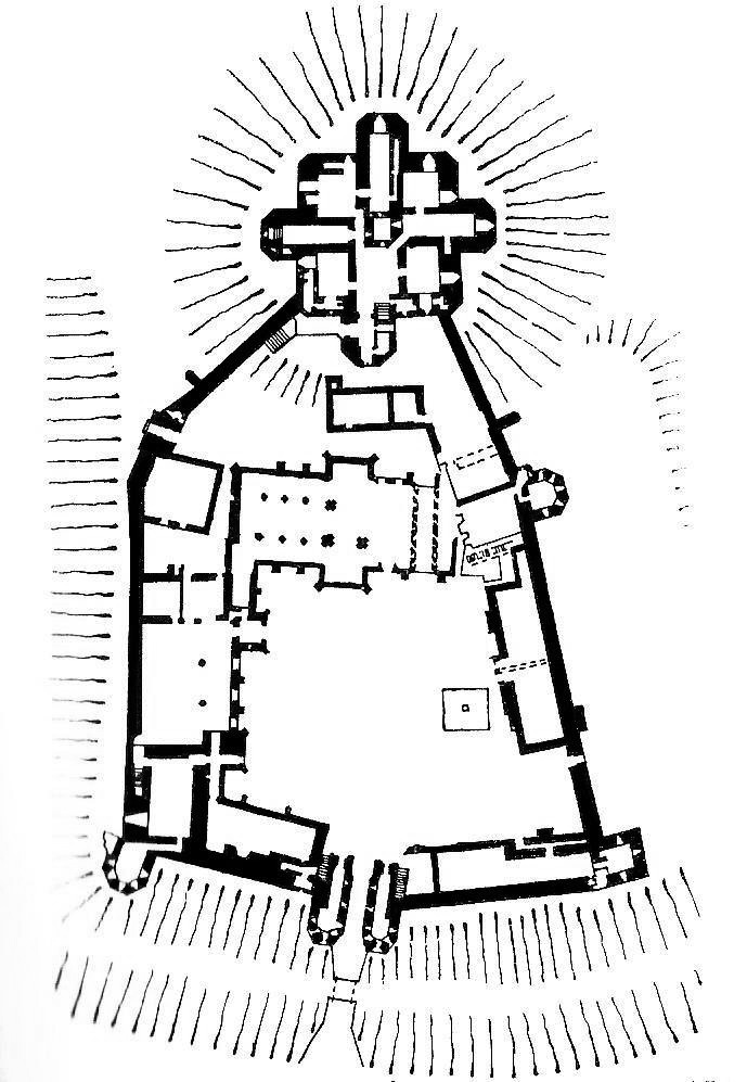 Plan of Warkworth Castle